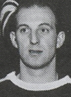 Svenne "Berka" Bergqvist, swedish footballer (goalkeeper) who was in the swedish squad for the 1938 FIFA World Cup.